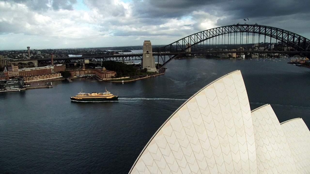 View of Sydney Harbour, Bridge and Opera House taken by MikroKopter